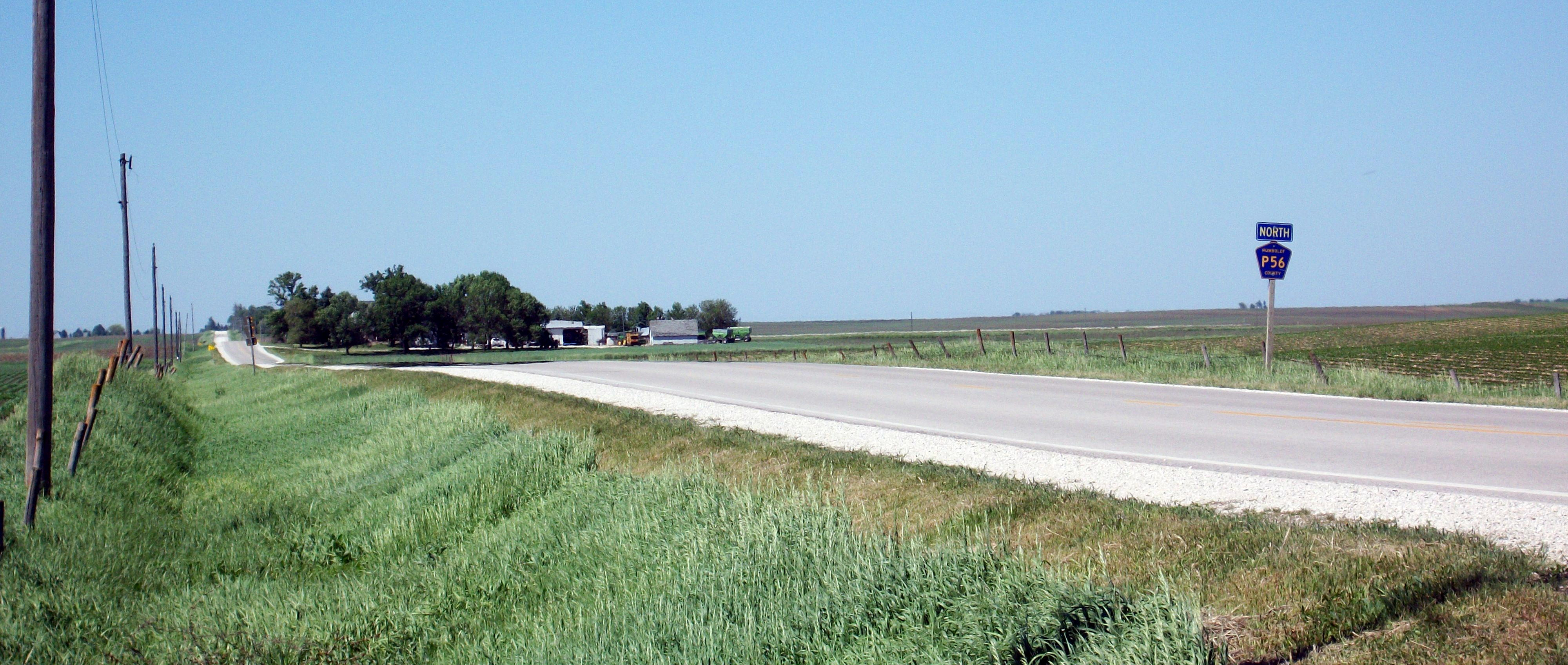 Humboldt County Route P56 locally "K Road" or "County K". Main highway in unincorporated Humboldt County, IA. North of Humboldt, IA.